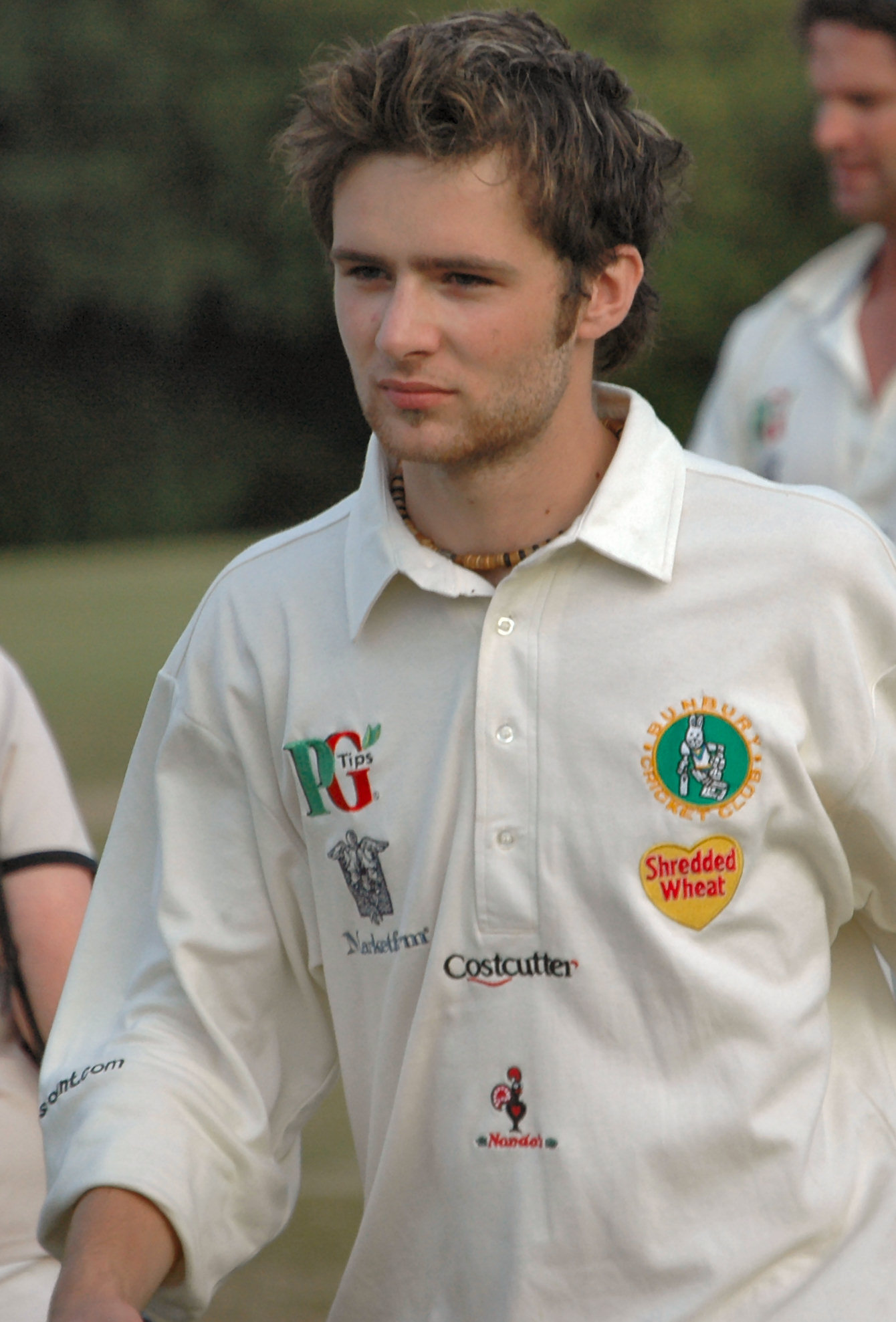 Harry Judd of McFly after a celebrity cricket match.